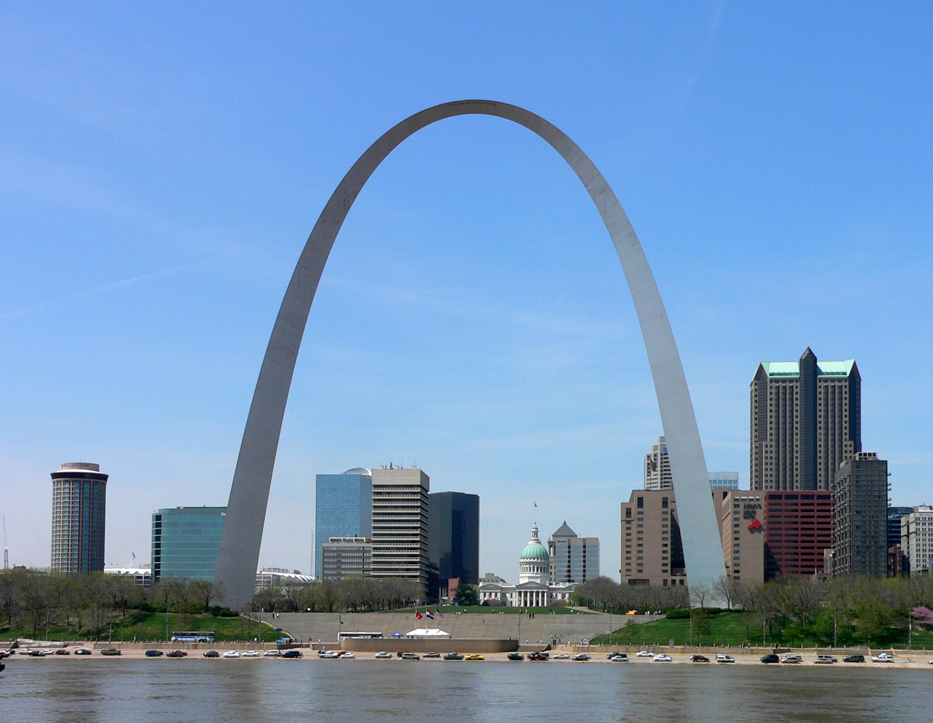 The Gateway Arch, part of the Jefferson National Expansion Memorial in St. Louis, Missouri, framing the courthouse where the Dred Scott decision was read.